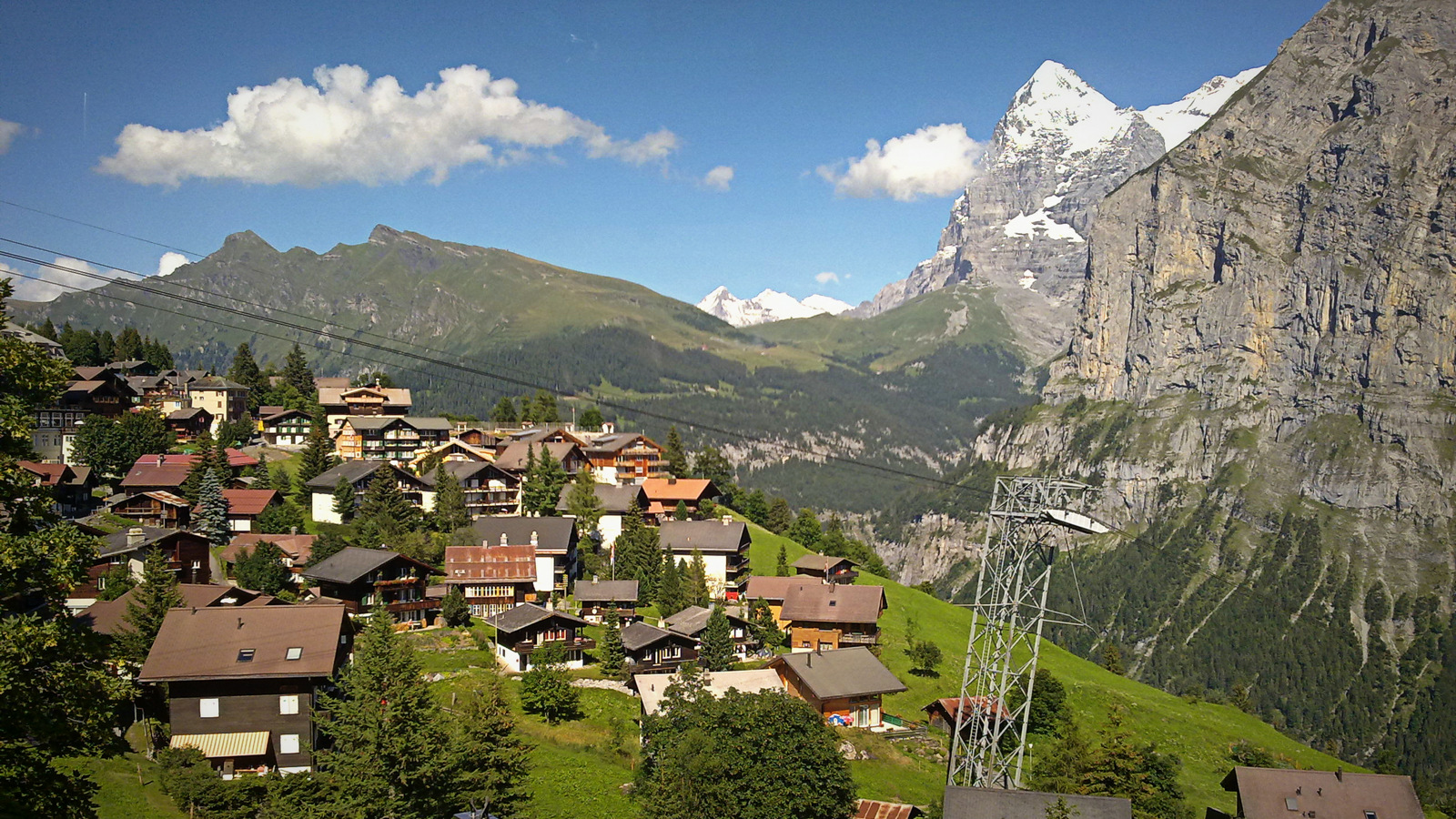 Mürren in Bernese Oberland, Switzerland